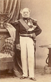 Abel Aubert du Petit Thouars, circa 1864.